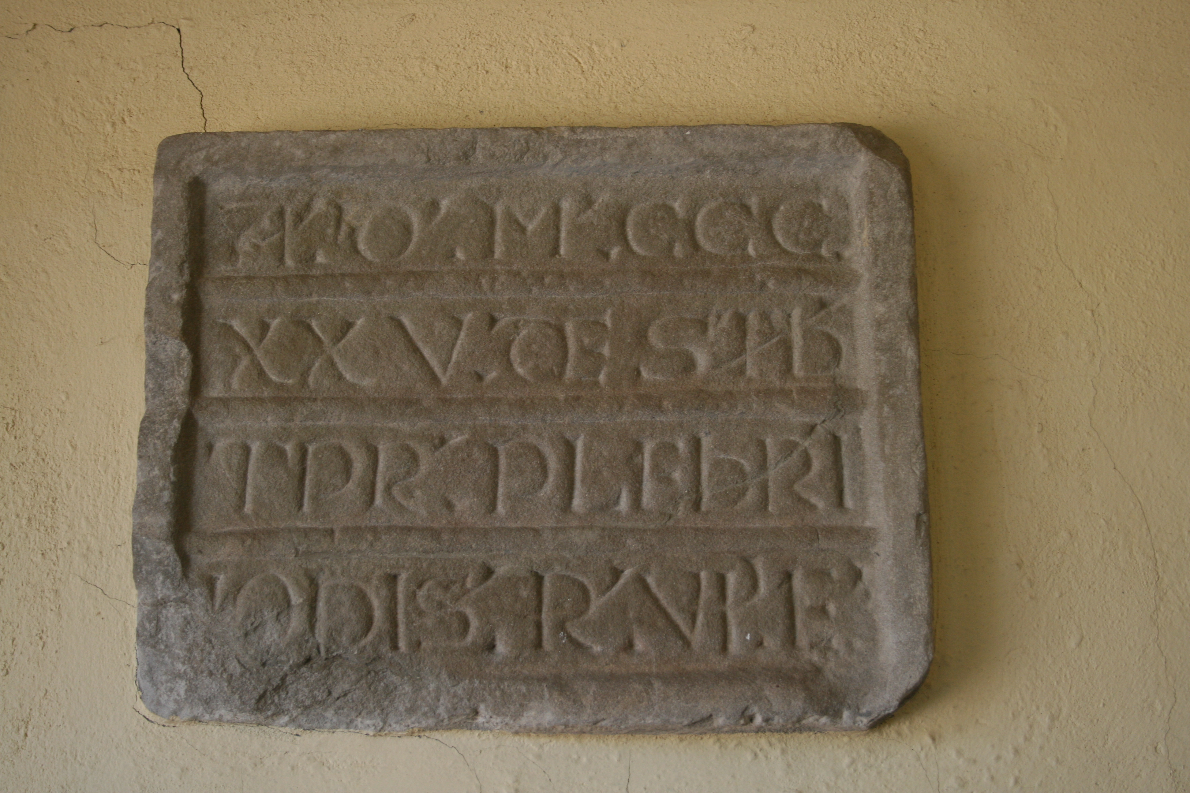 The church of Pietraversa in Montevarchi countryside